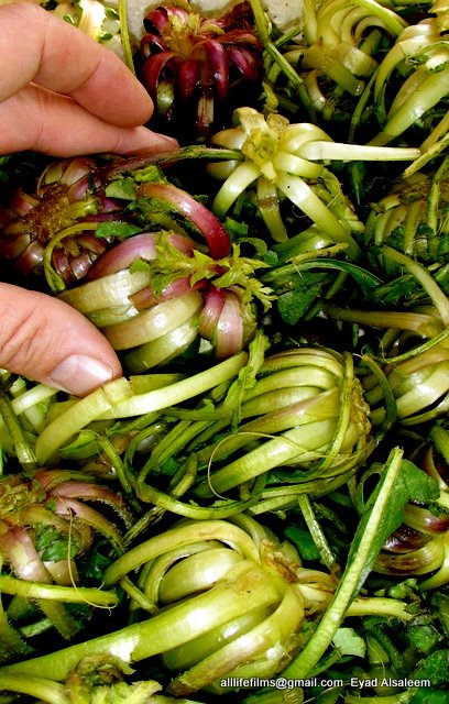 نباتات برية سورية تؤكل